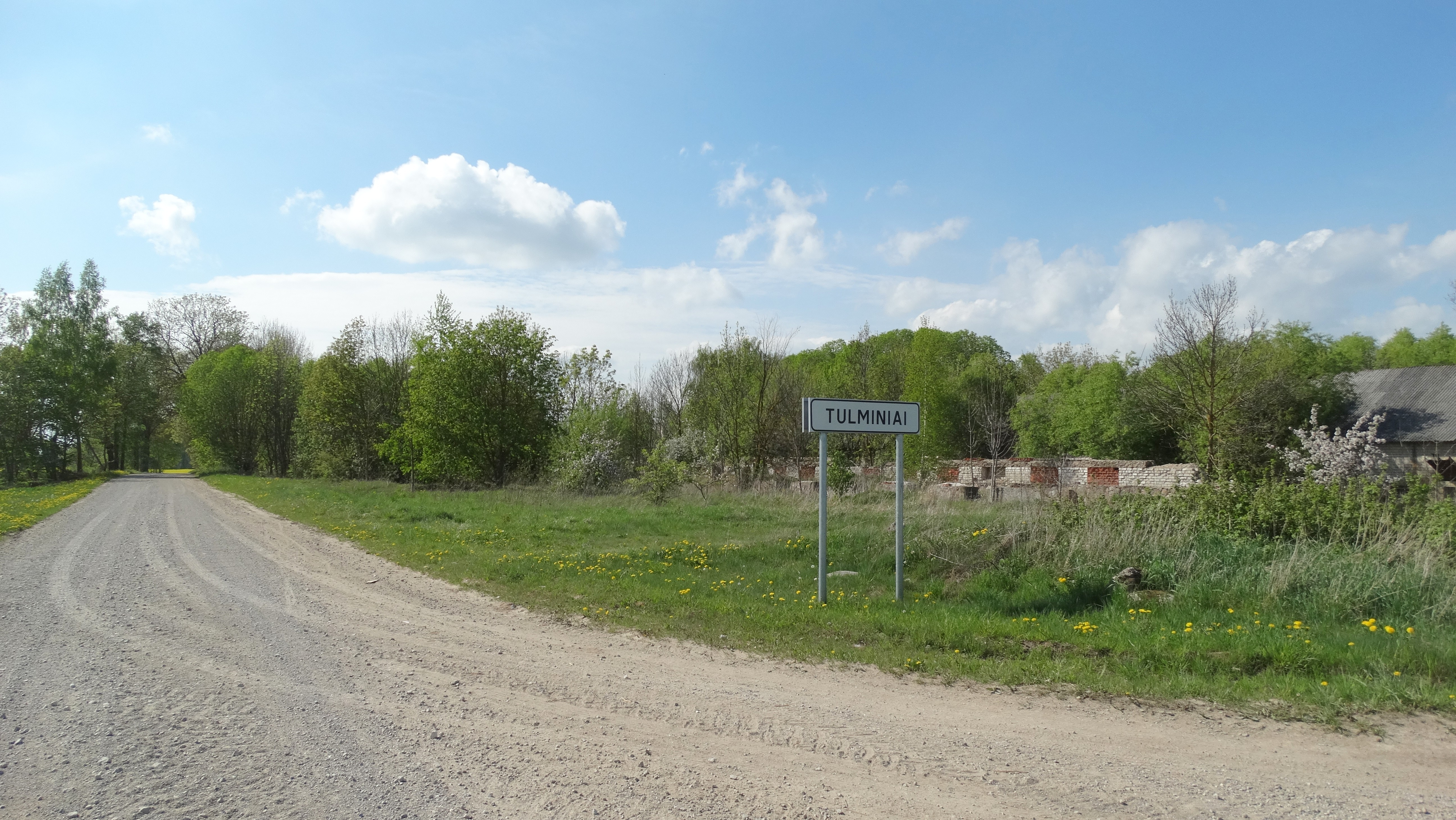 Tulminiai, Pakruojis district, Lithuania